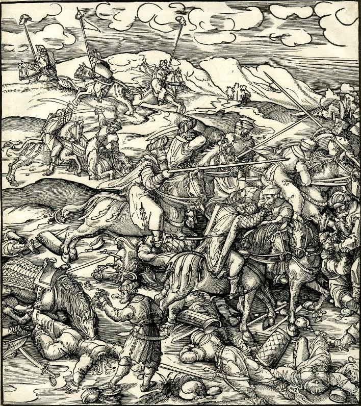 Illustration of the battle of Krbava Field in 1493 in Croatia by Leonhard Beck .